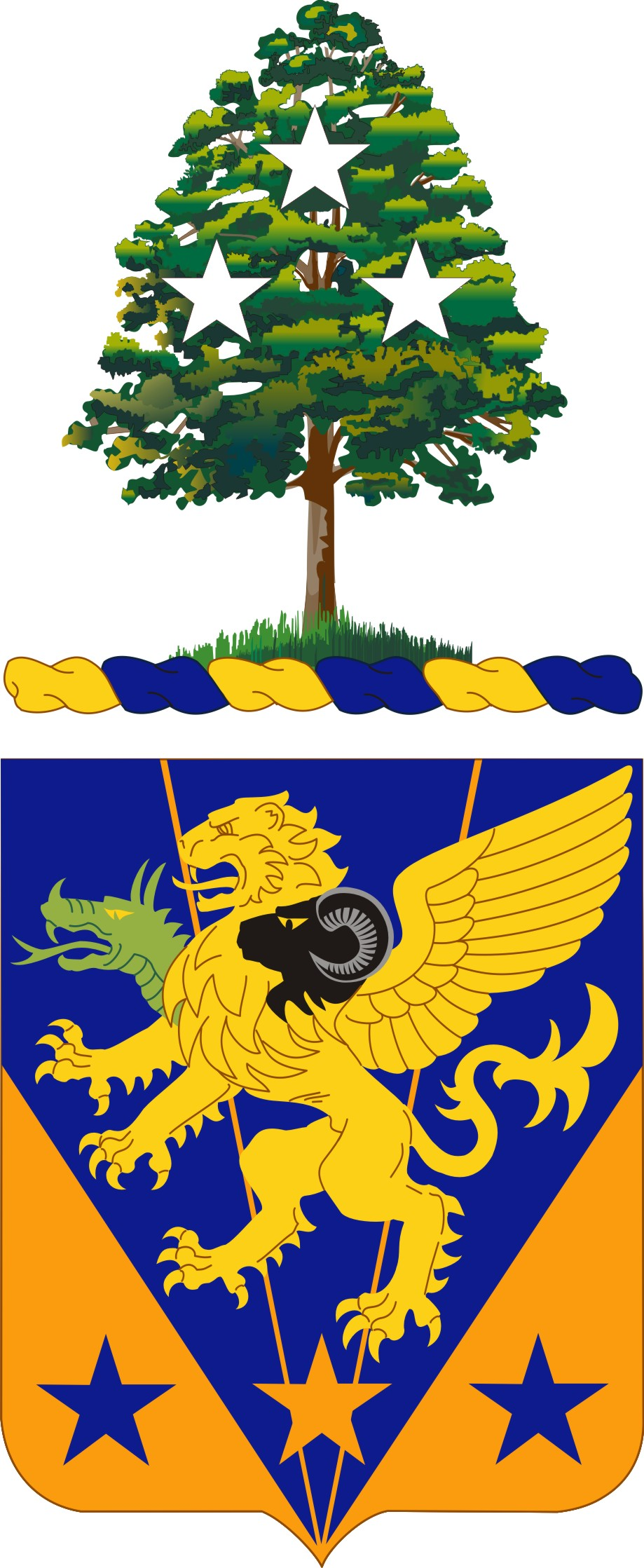 107th Aviation regiment coat of arms